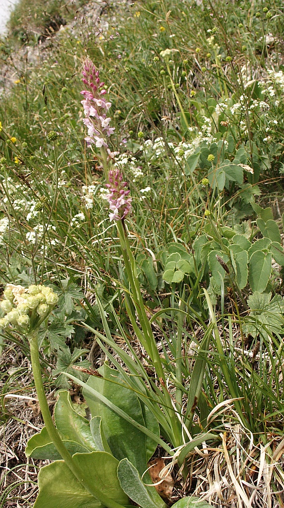 Gymnadenia odoratissima, Allgäuer Alpen, Germanyon the left: a fruiting Primula auricula